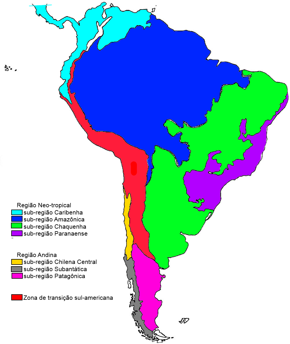 Mapa com as sub-regiões biogeográficas de acordo com Juan J. Morrone